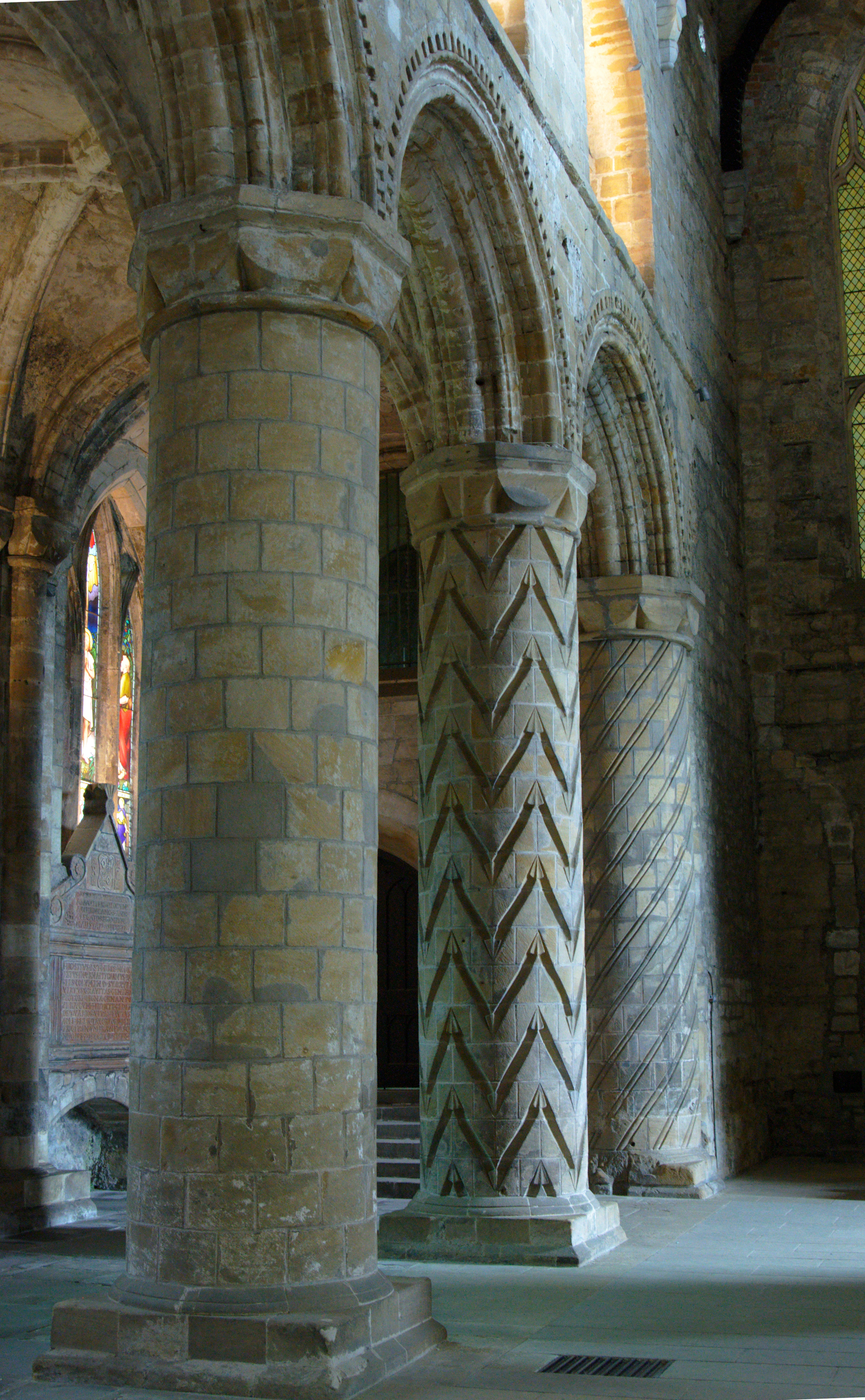 Dunfermline Abbey, Interior of Eastern ship, Norman columns with typical zigzag ornament